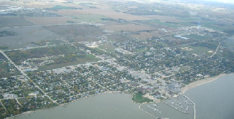 Gimli, MB, Sept 2006 Author: Reimer, R. Uploaded by Author